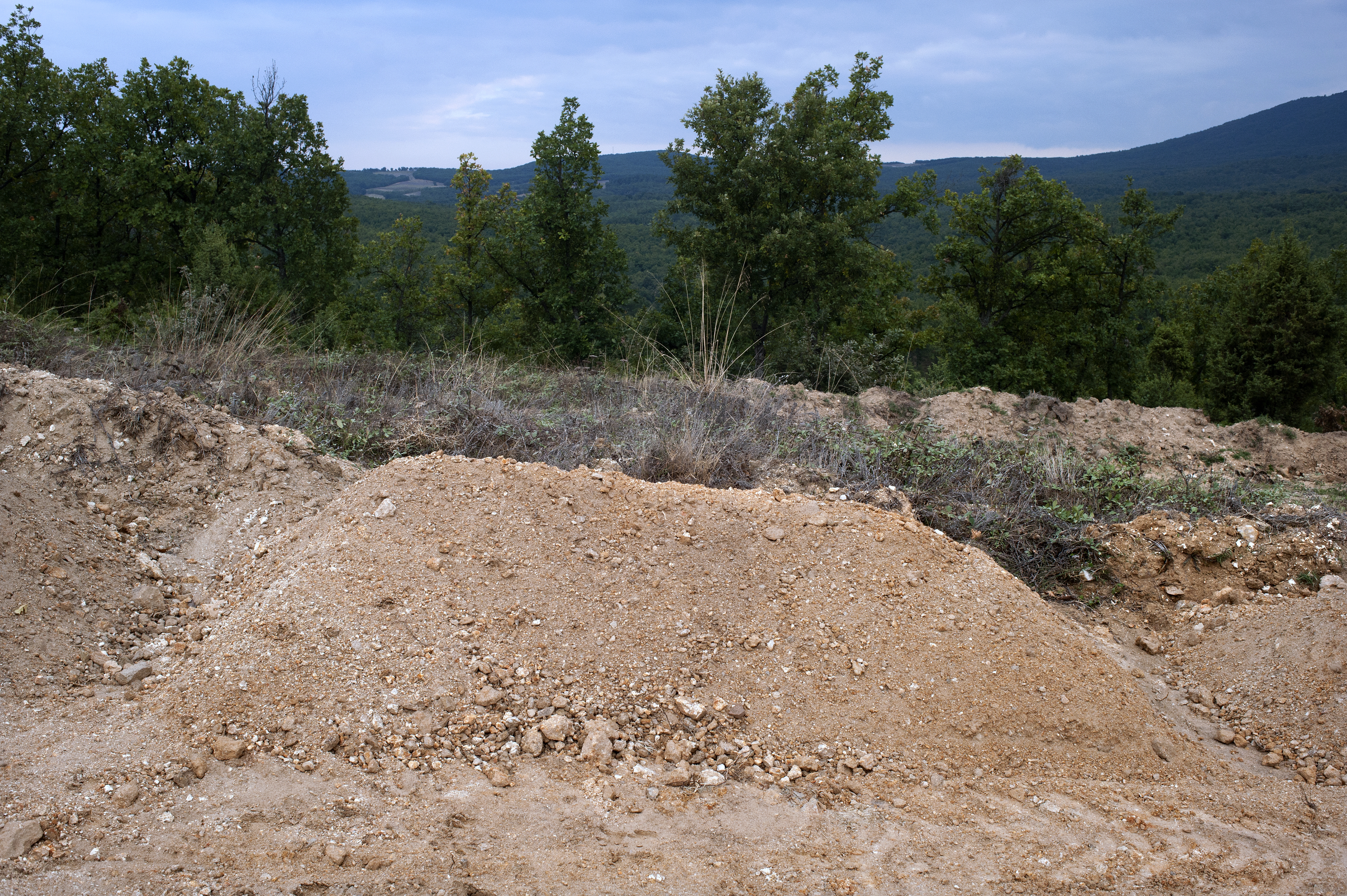 Refugees Immigrants without papers Graves in Sidiro Evros Greece.